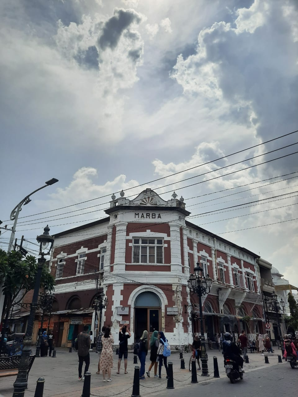 Ini adalah foto Kota Tua, Semarang yang pada siang hari. Foto ini menggambarkan keramaian Kota Tua